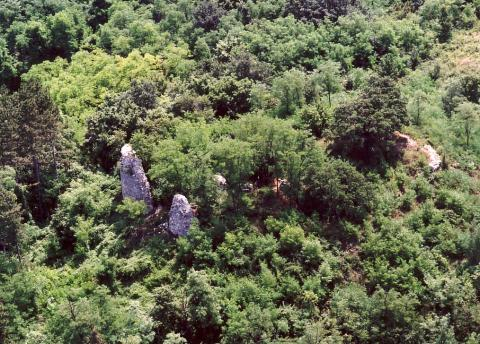 Sámsonháza, Hungary, aerialphotography